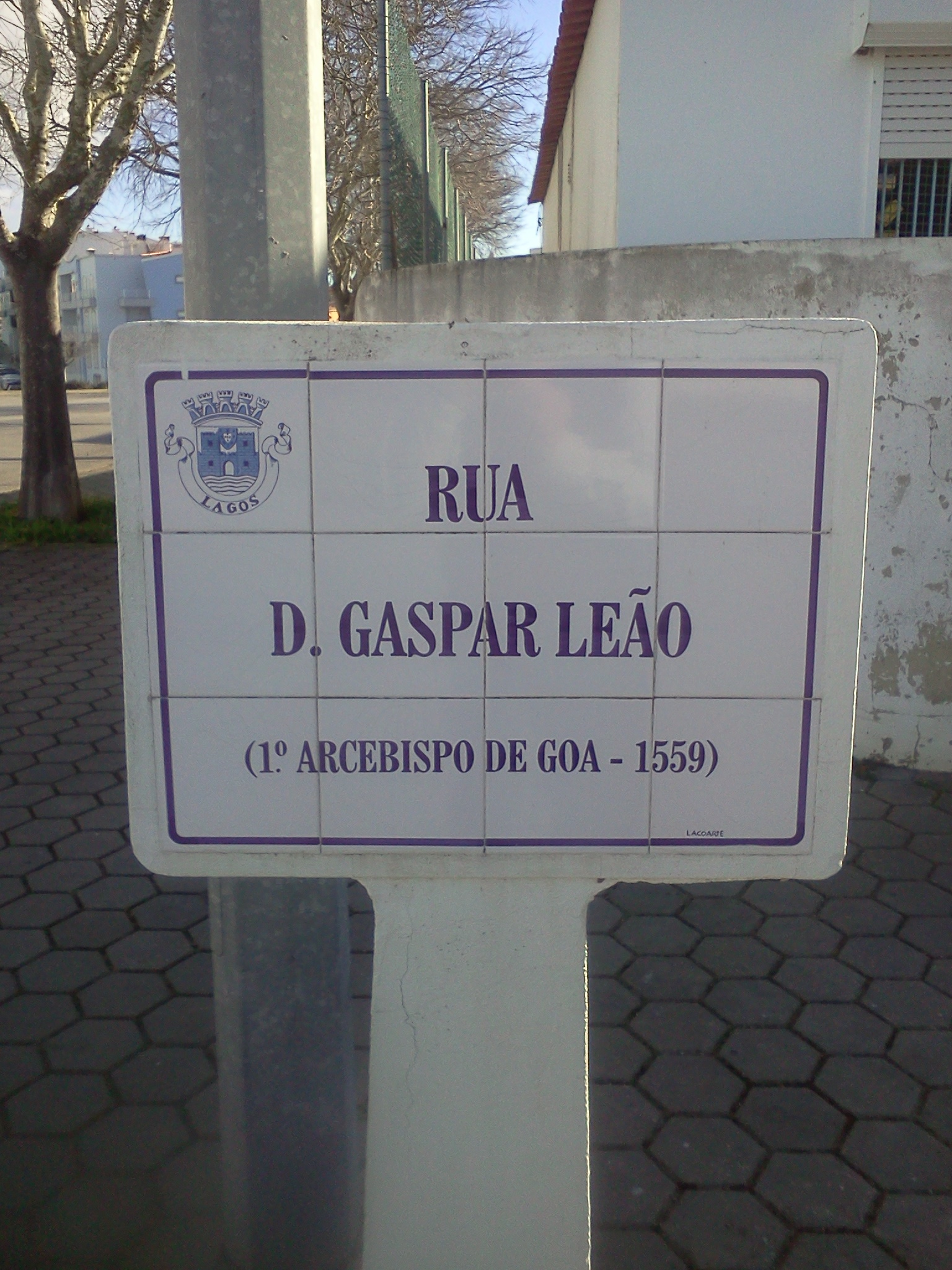 Street sign of Rua D. Gaspar Leão, in the city of Lagos, in southern Portugal.